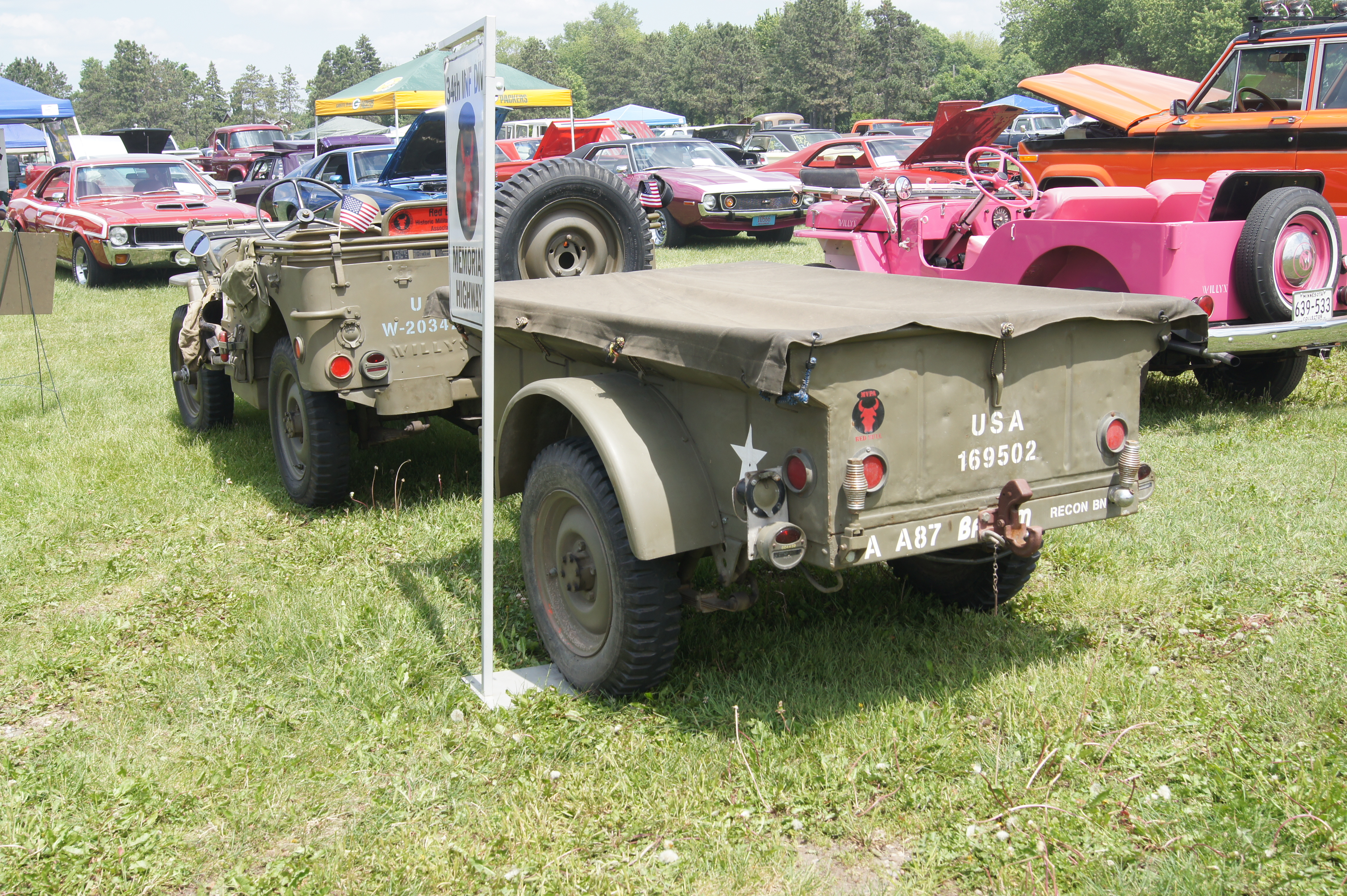 28th Annual Midwest Mopars in the Park June 2, 2012